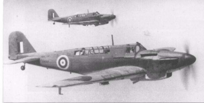 Fairey Fulmar Mk. I carrier-borne fighter and recce flying in twin formation over the Mediterranean Sea (1941)